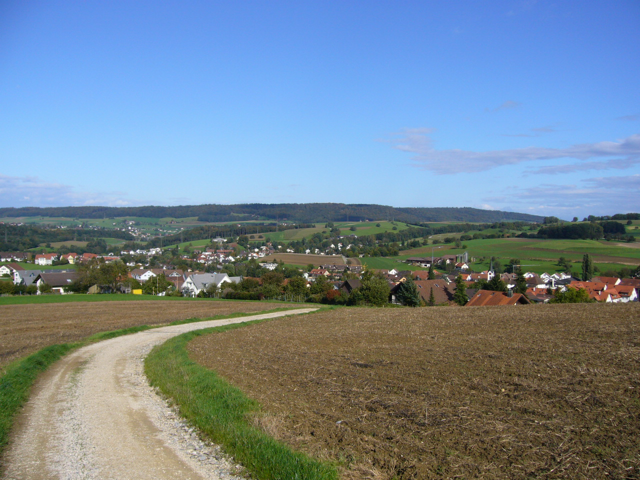 The village of Ehrendingen, canton of Aargau, Switzerland. Picture taken by Peter Berger, October 7, 2006.